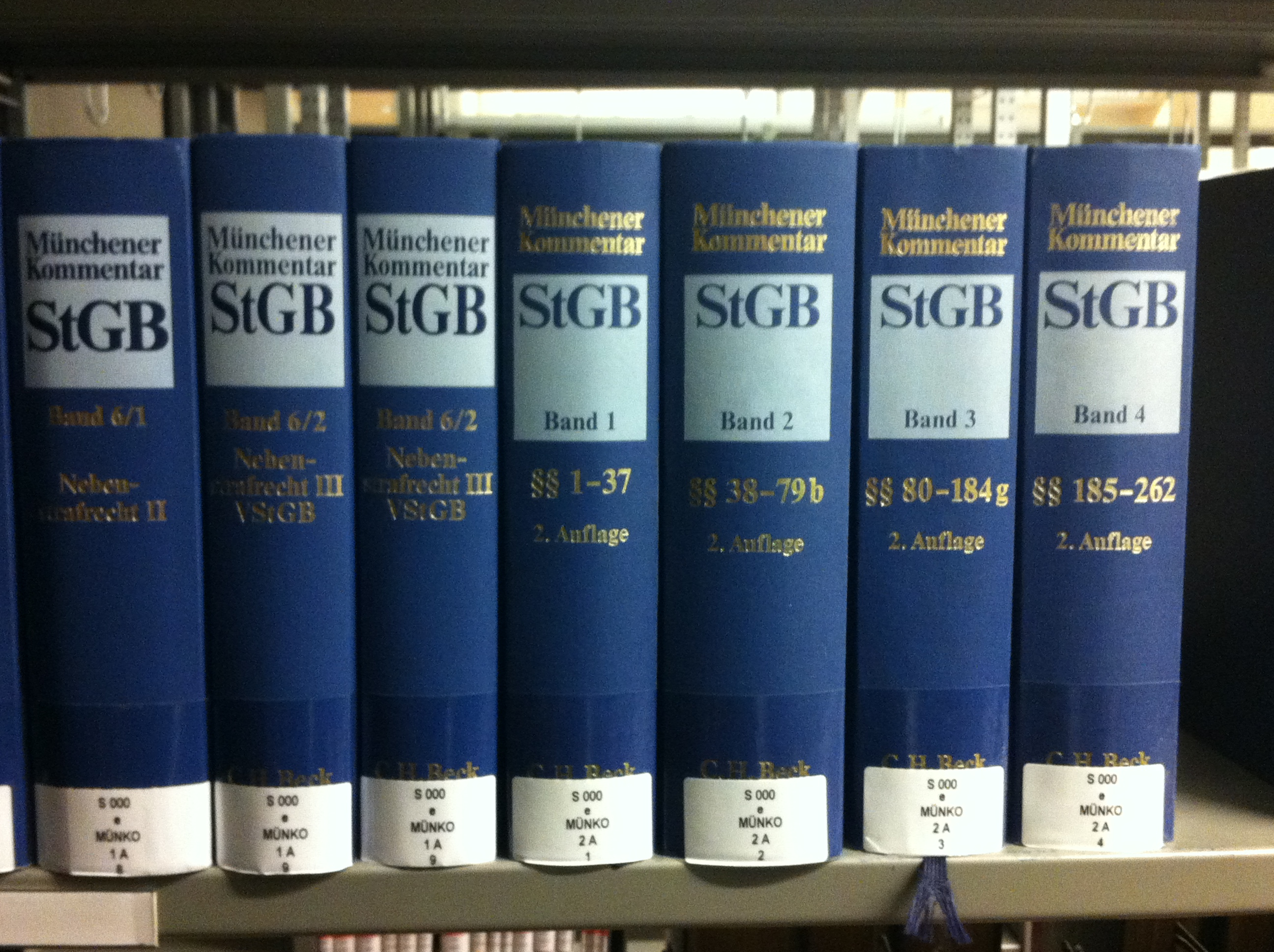 Munich commentary on the German Criminal Code